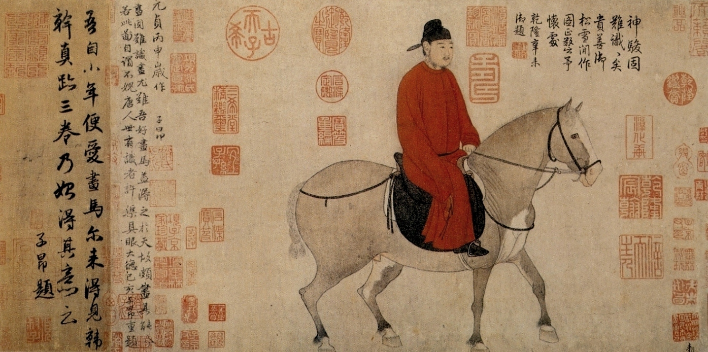 Zhao Mengfu. Man Riding a Horse, (central part) dated 1296 (31.5 x 620 cm), Palace Museum, Beijing.